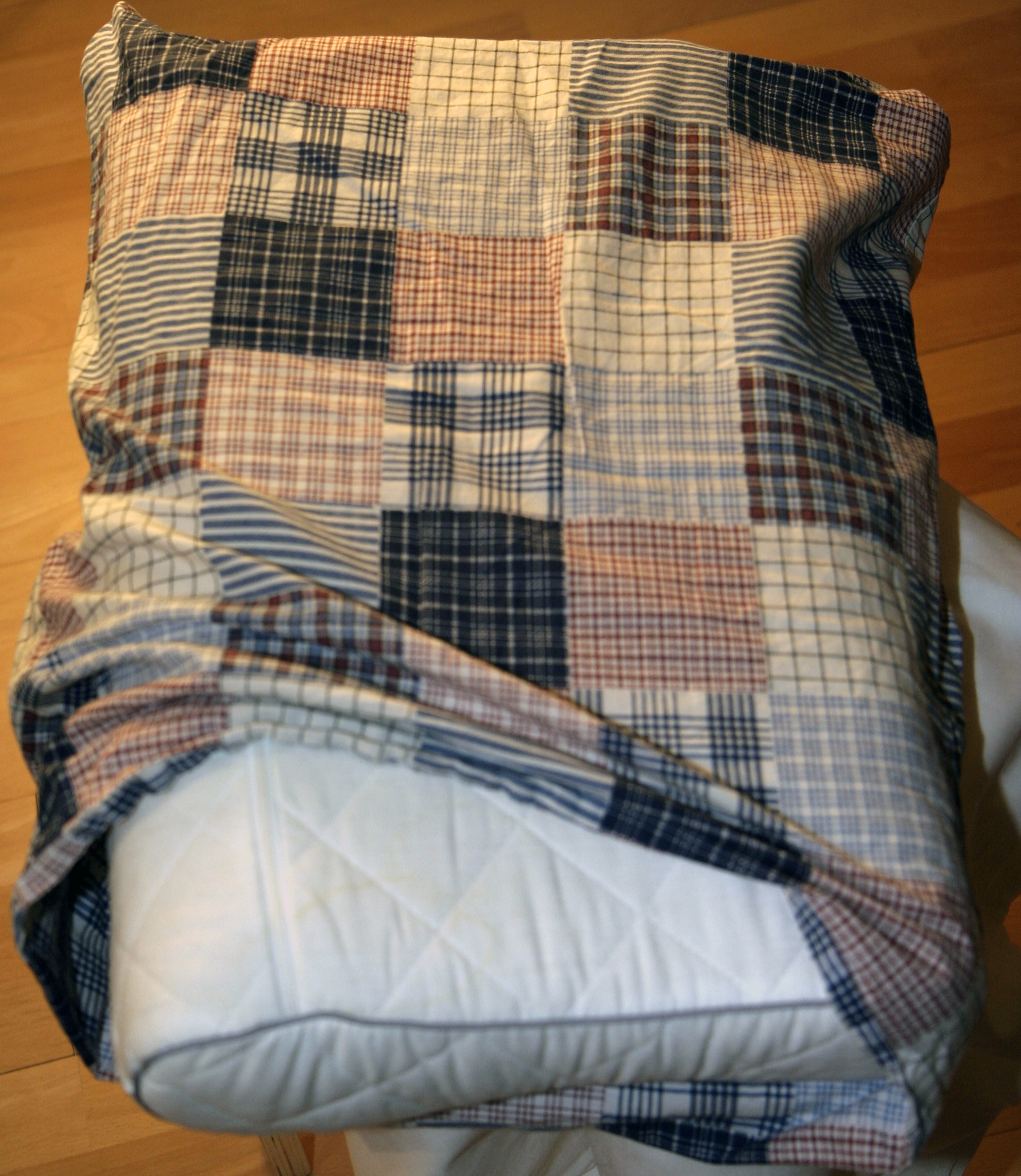 Pillowcase drawn over an Orthopedic pillow